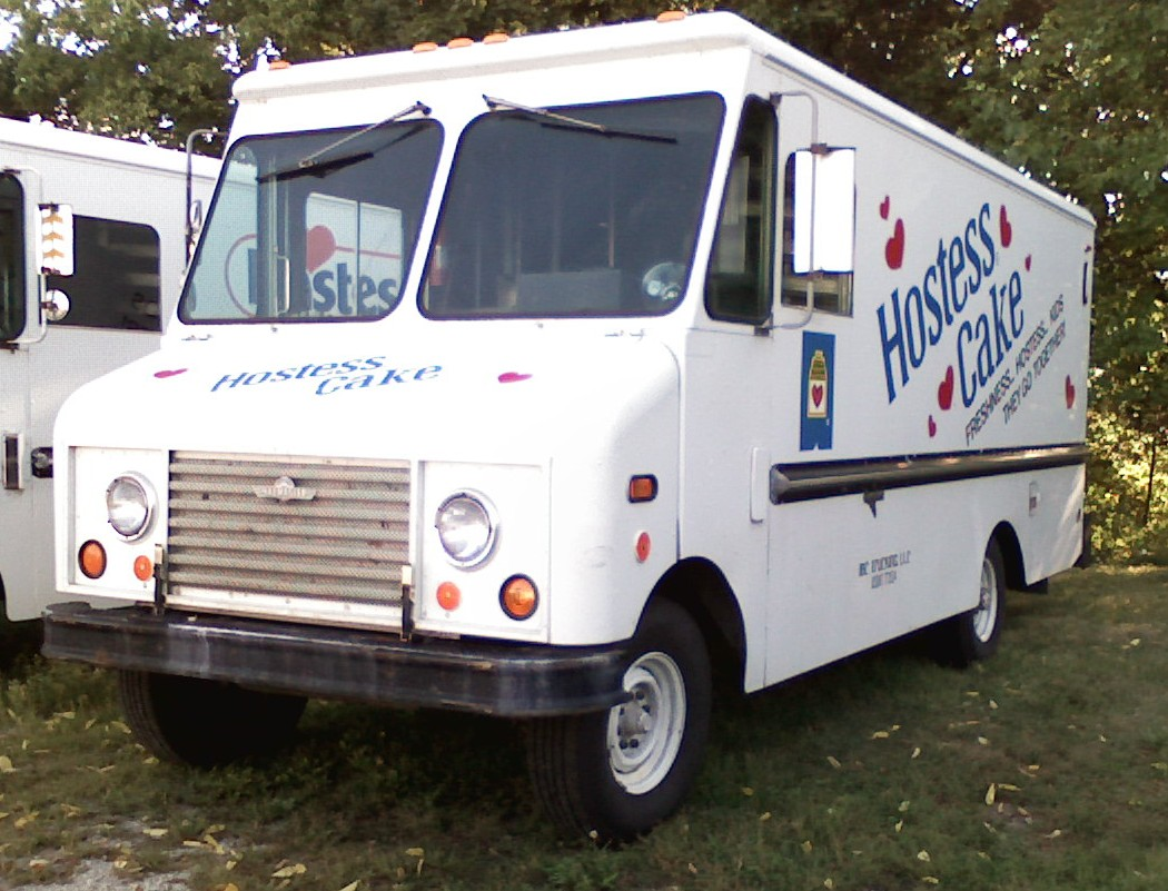 Grumman Kabmaster Hostess Brands truck